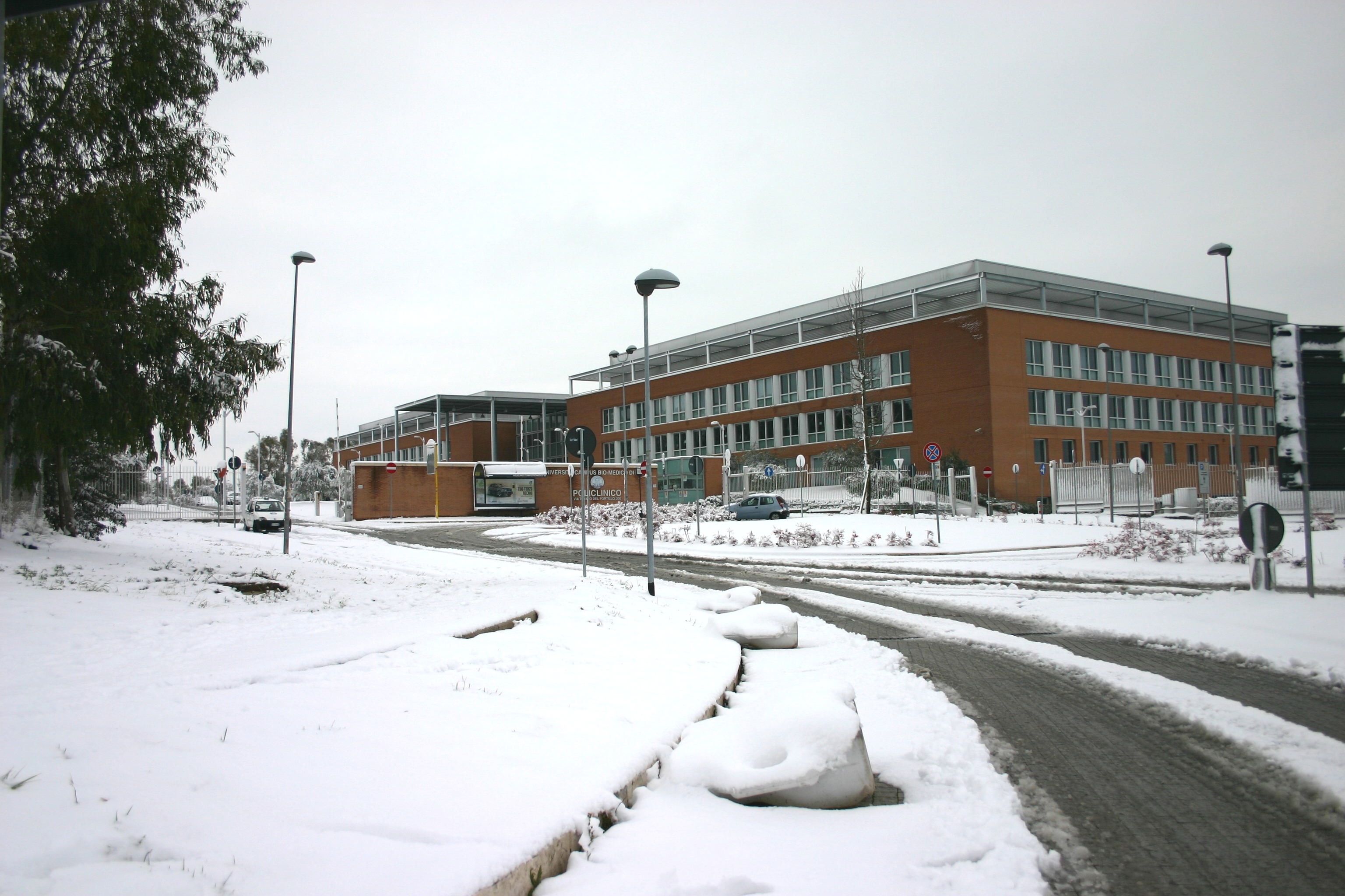 Campus Bio-Medico University, Rome, under the snow, february 2012